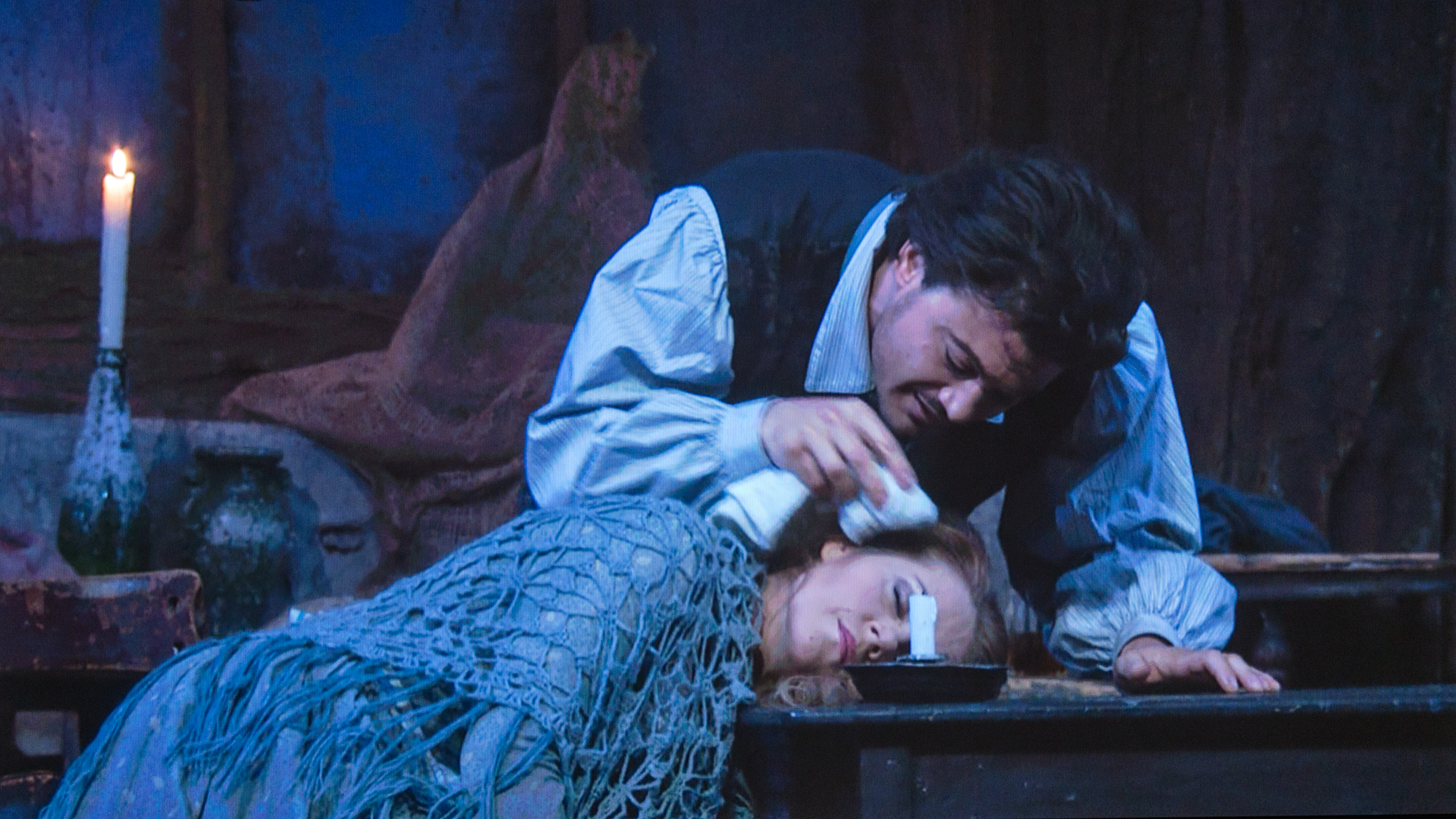 La Bohème from the Metropolitan Opera April 2014